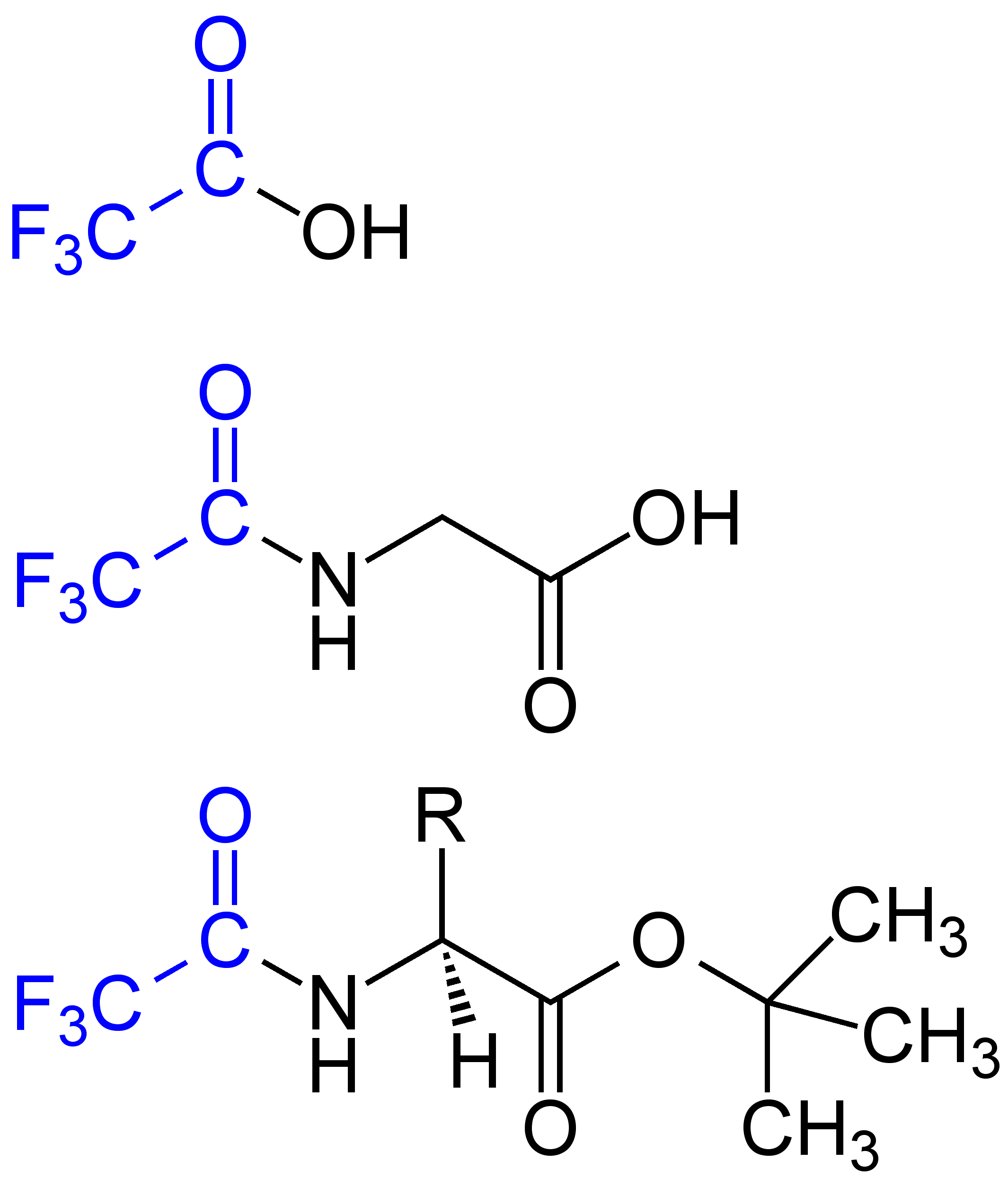 Trifluoroacetyl_Group